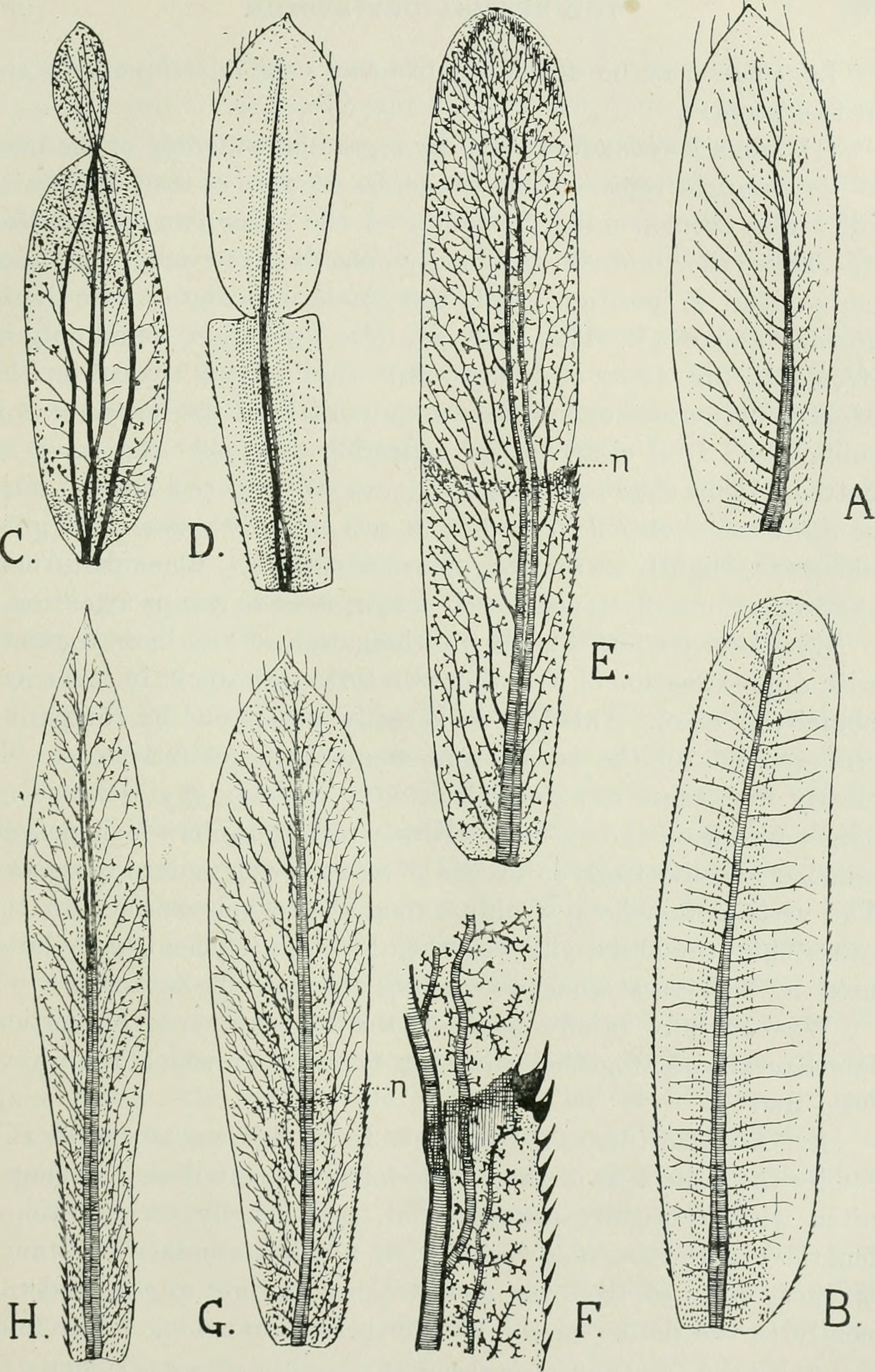 Title: The biology of dragonflies (Odonata or Paraneuroptera) Year: 1917 (1910s) Authors: Tillyard, Robin John, 1881-1937 Subjects: Dragon-flies Publisher: Cambridge (Eng. ) : University Press Text Appearing Before Image: ' Text Appearing After Image: J^ig. 84. Types of caudal gill in Lestid and Agrionid larvae, a. Synlestes v^eyersi Selys ( X 16), B. Austrolesles cingulatus Burm. ( x 1.'$). c. Neosticta canescens Tillyard ( x 13). D. Isosticta simplex Martin ( x 14). E. Caliagrion hilling- hursti Martin (xll). p. The same, region of node ( x 32). g. Ischnura heterosticta Burm. ( X \',i). h. Argiocnemia rubescens Selja ( x \S). a-f, median gills. OH, lateral gills, n node. Original, cedar-oil preparations. T. D.-F. 13